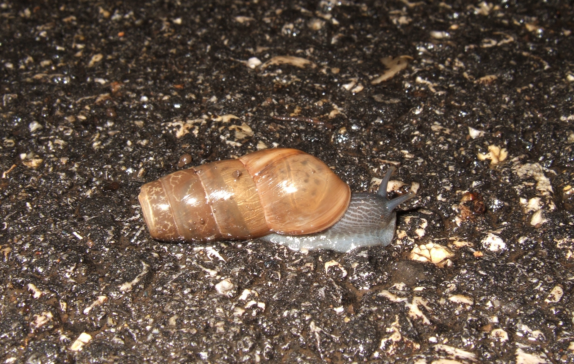 Photograph of a Decollate snail Rumina decollata taken in Austin, Texas in May 2007. This is a crop. Originals are available at